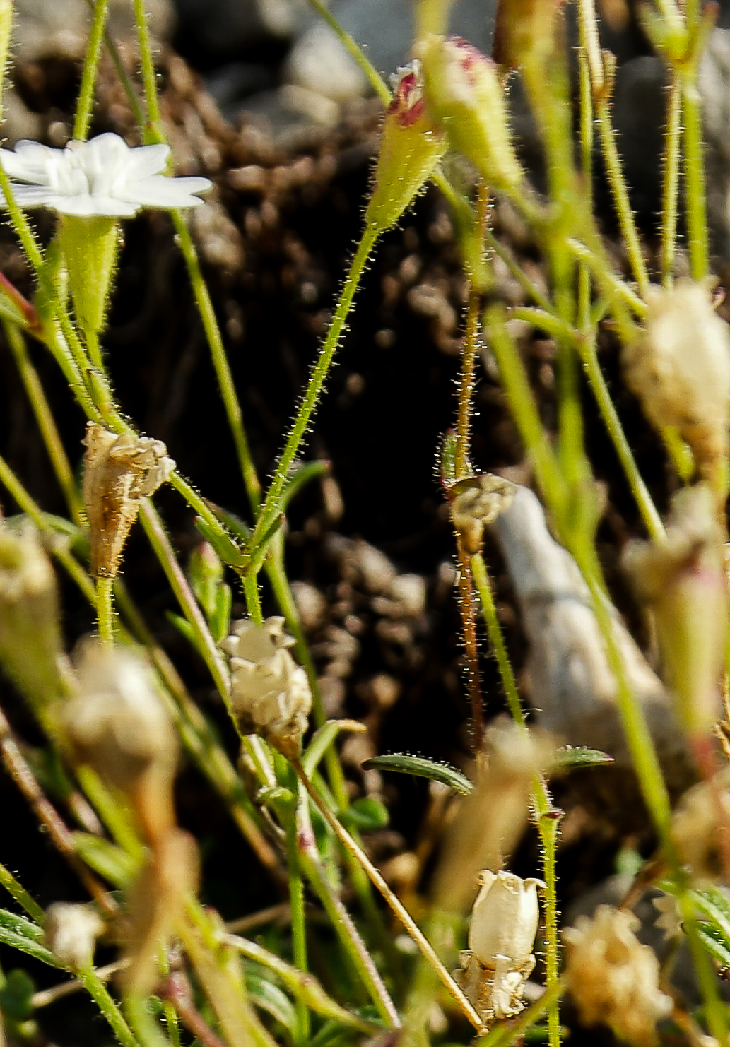 Heliosperma monachorum Jastrebica Orjen Montenegro leg Pavle Cikovac